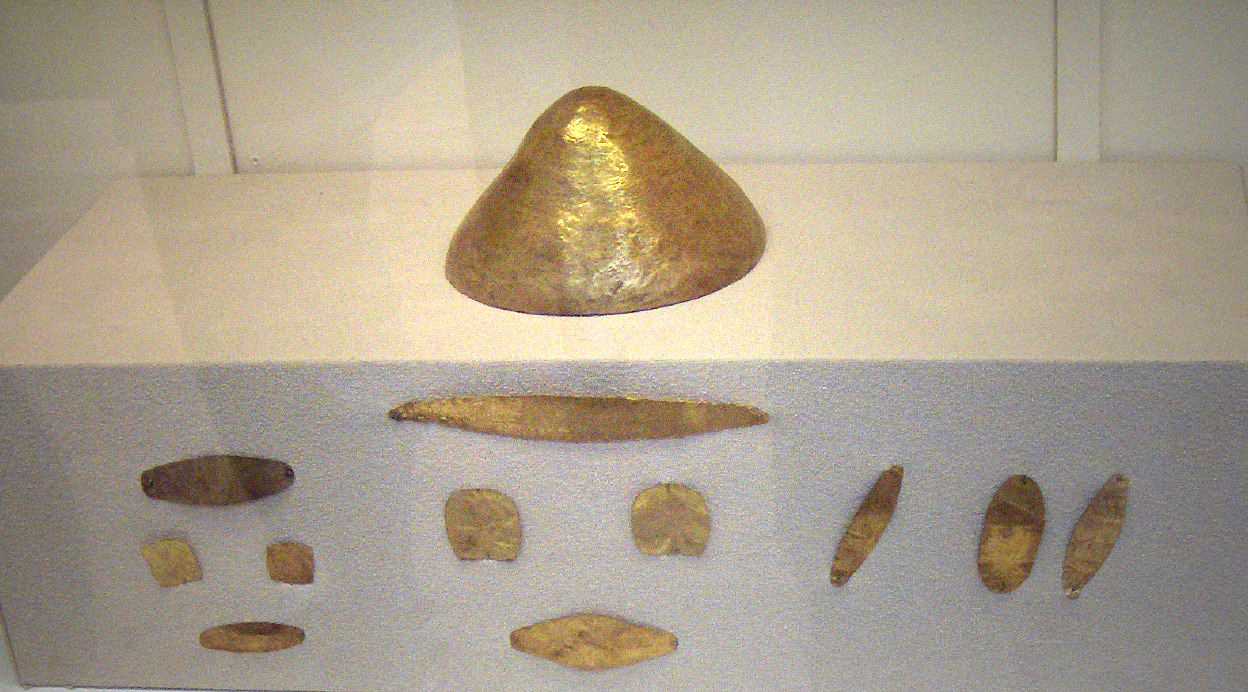 Golden ornaments, found at Kültepe; Period of the Assyrian Trade Colonies; 1950-1750 BC; Museum of Anatolian Civilizations, Ankara, Turkey